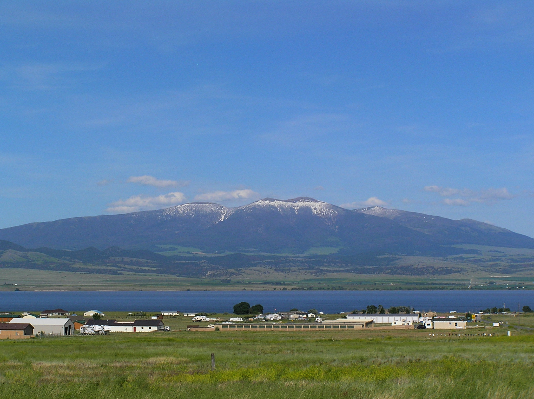 Mount Baldy in the Big Belt Mountains, near Townsend, MT, Canyon Ferry Reservoir in foreground